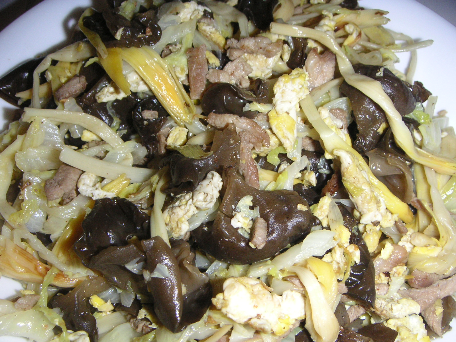 Home made mu xu pork